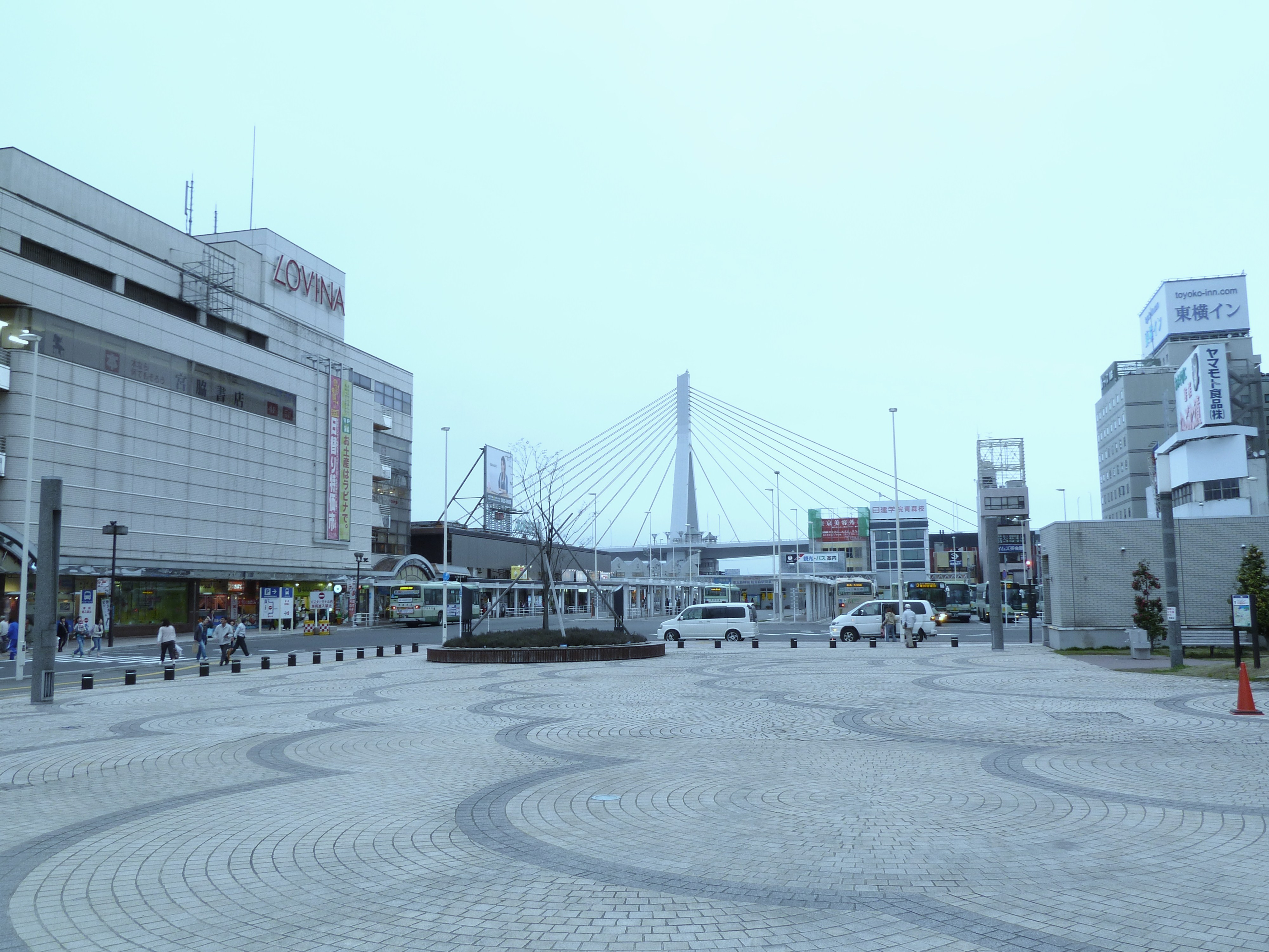 青森駅前